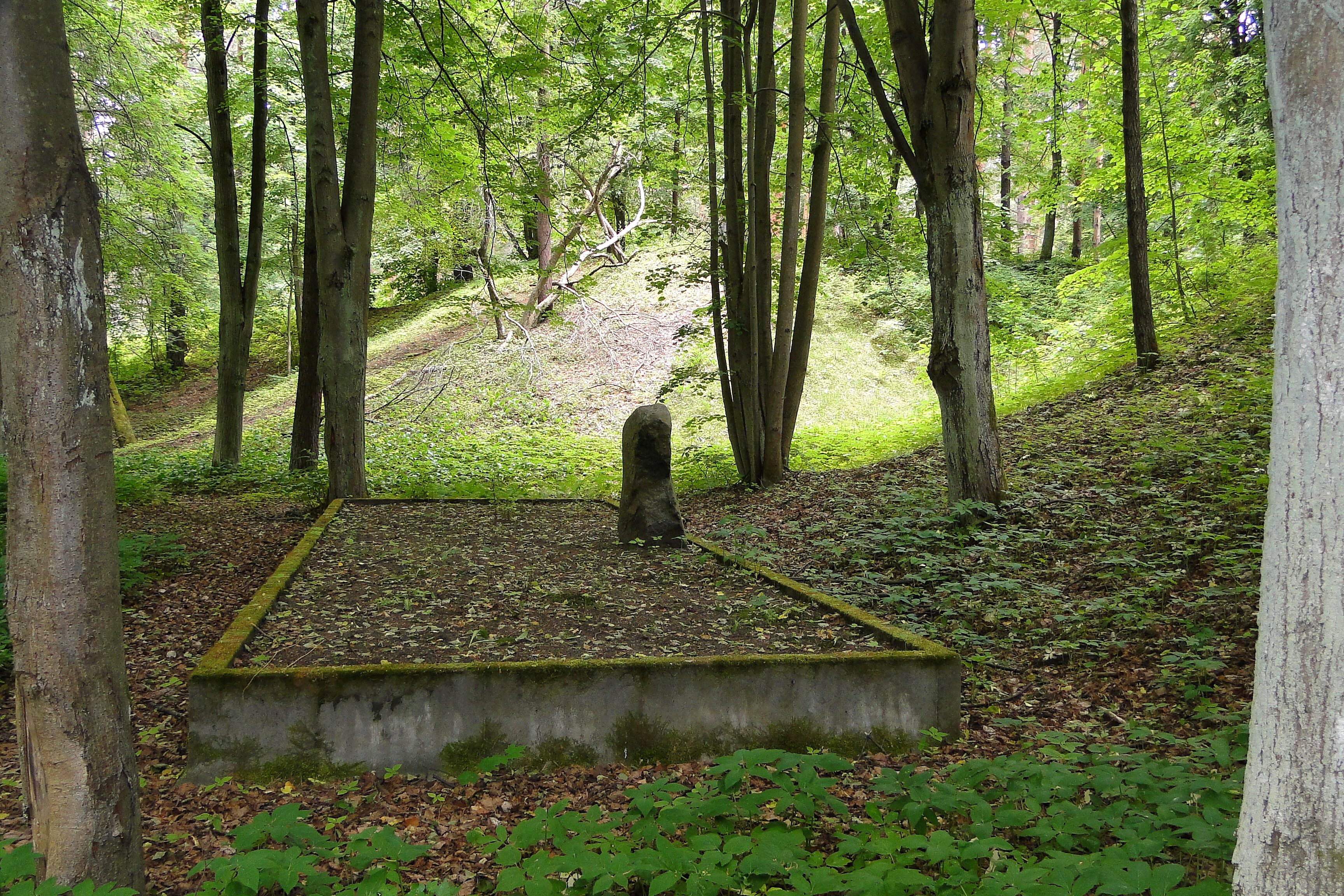 Mass Gravesite of Jews Murdered by Nazis - Bikernieku Forest - Riga - Latvia - 04